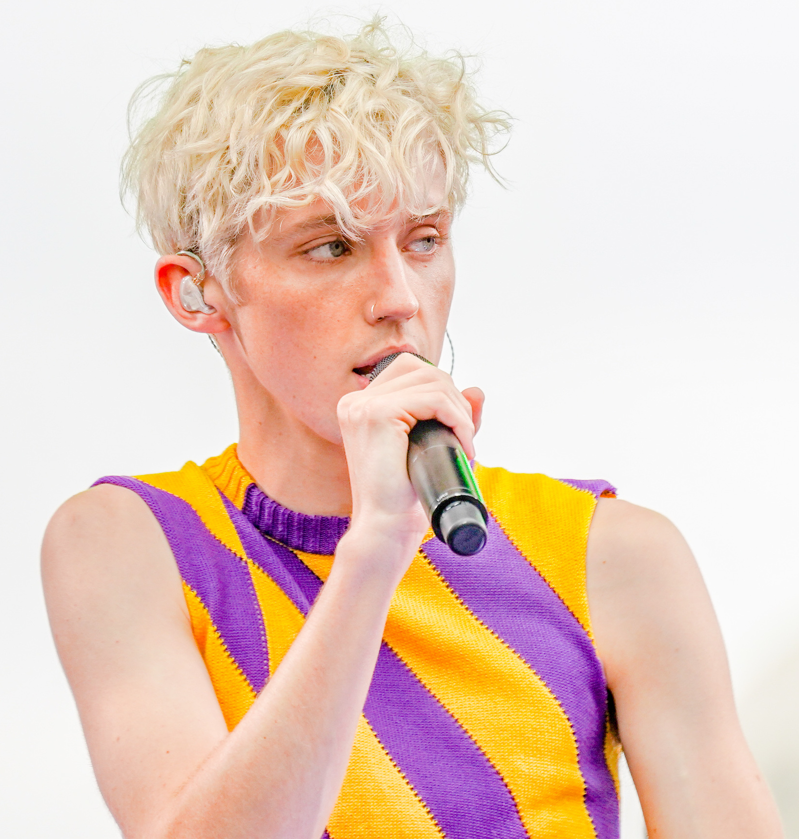 2018.06.10 Troye Sivan at Capital Pride w Sony A7III, Washington, DC USA 03483